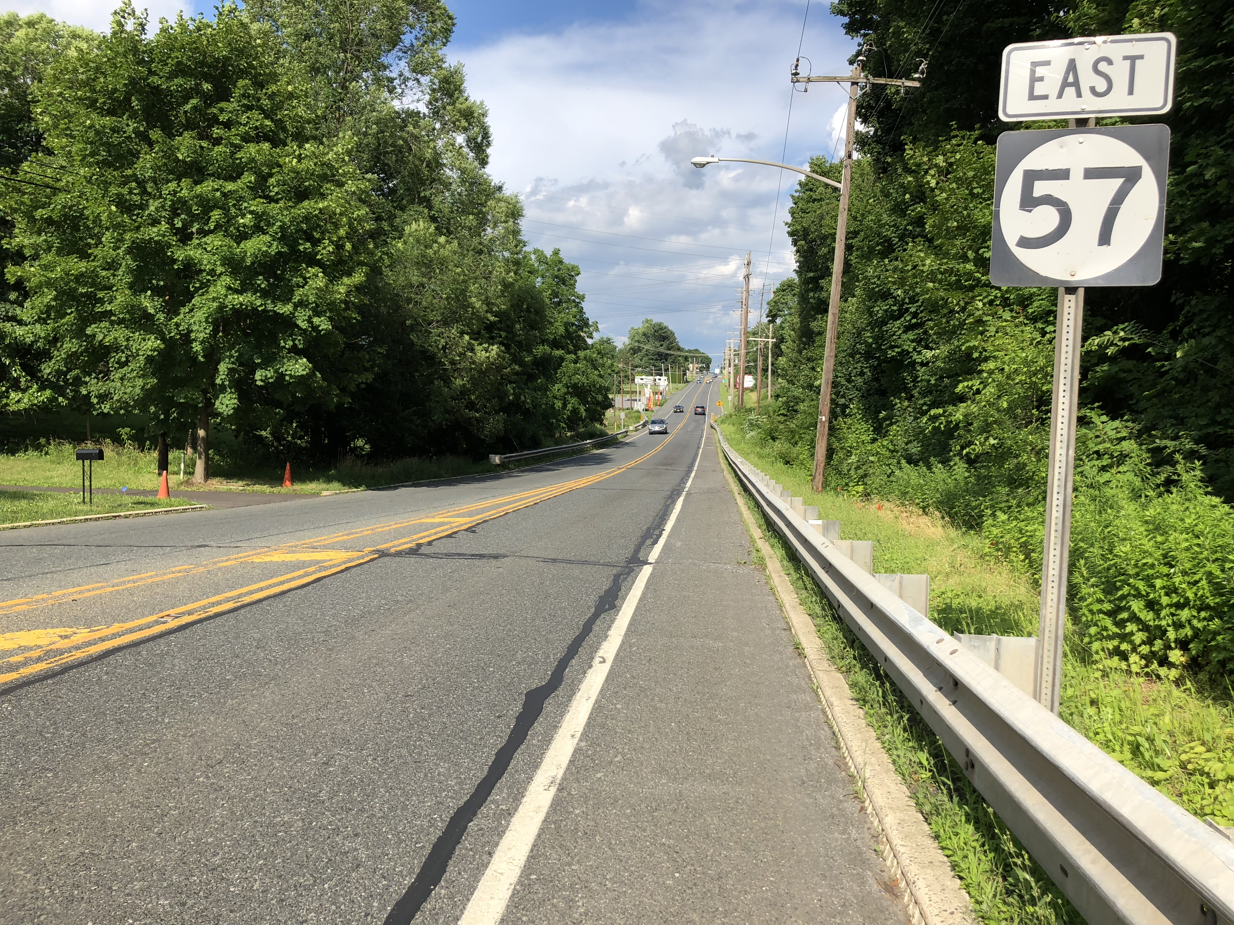 View east along New Jersey State Route 57 just east of Red School Lane in Lopatcong Township, Warren County, New Jersey